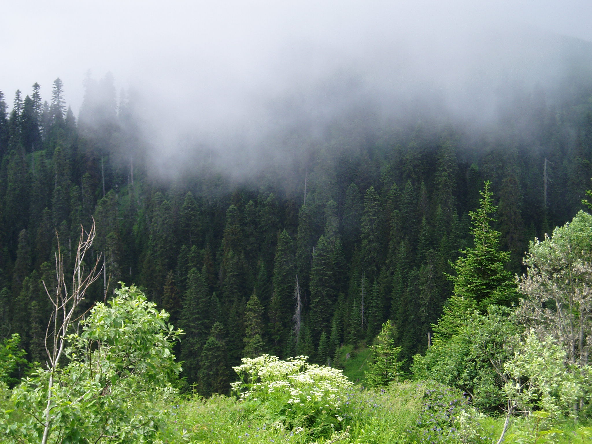 Borjomi-Kharagauli National Park